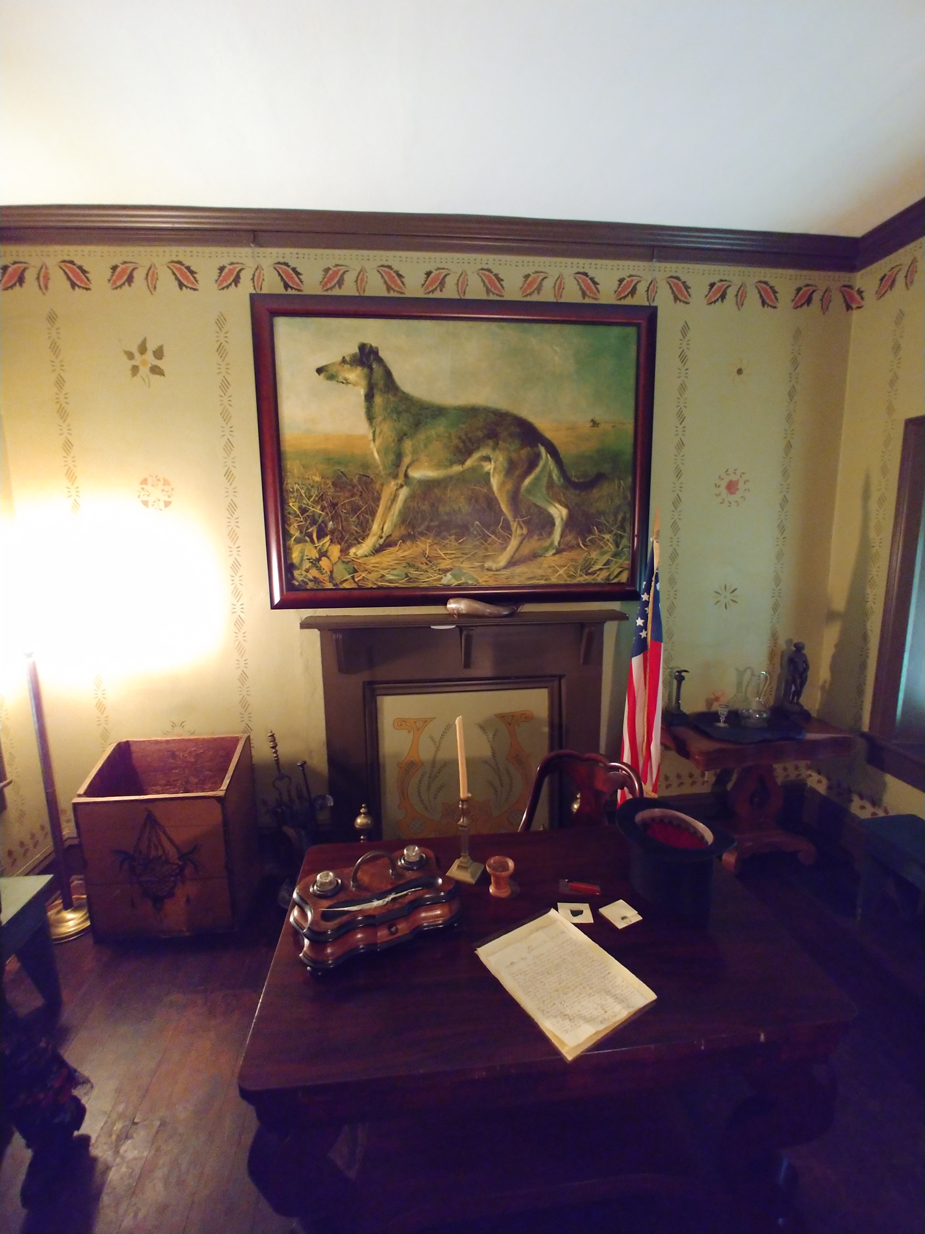 General Sibley's home office with a portrait of his dog Lion